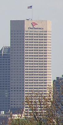 OneAmerica Tower in Downtown Indianapolis